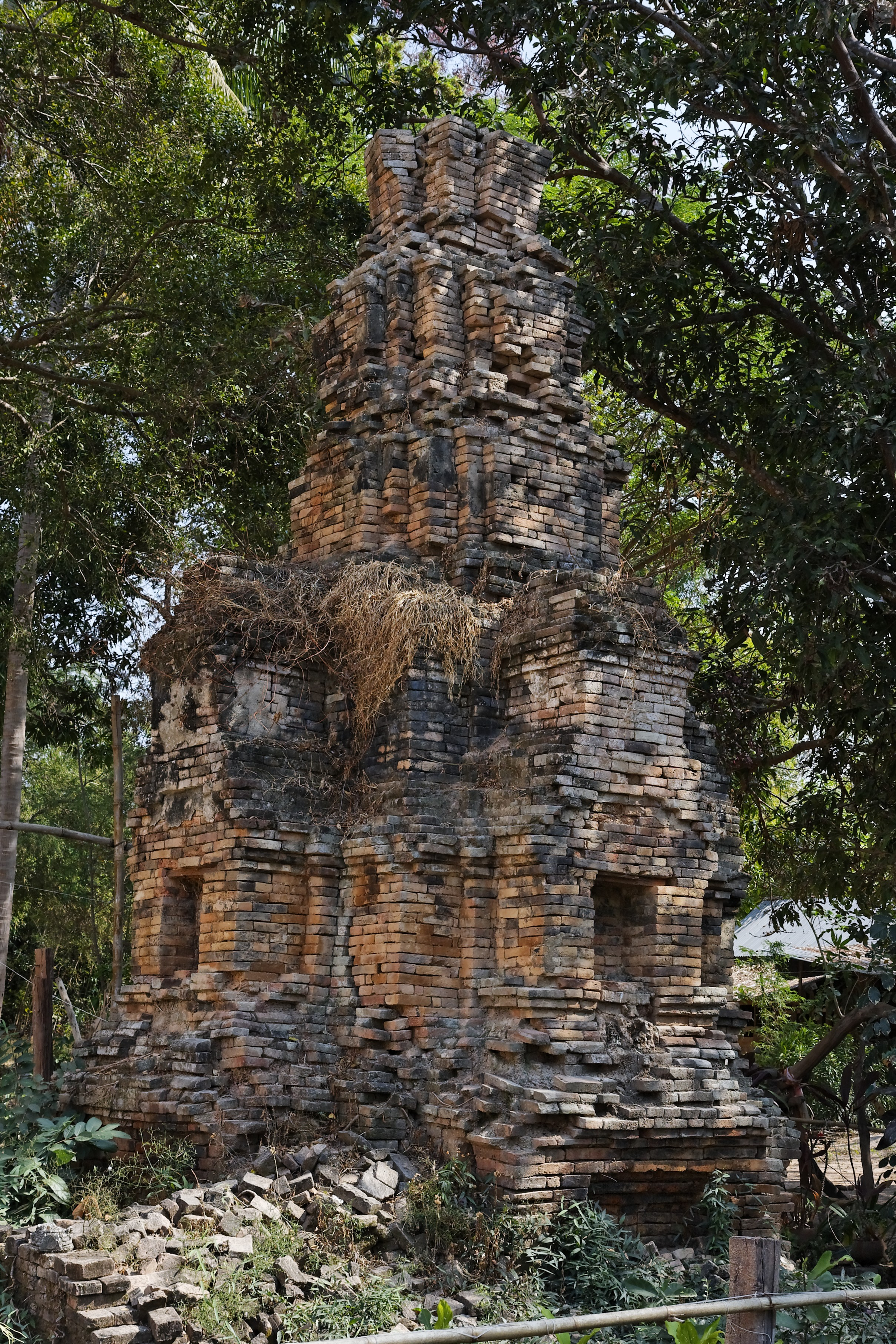 Prasat Tra Priang Tia, Thailand